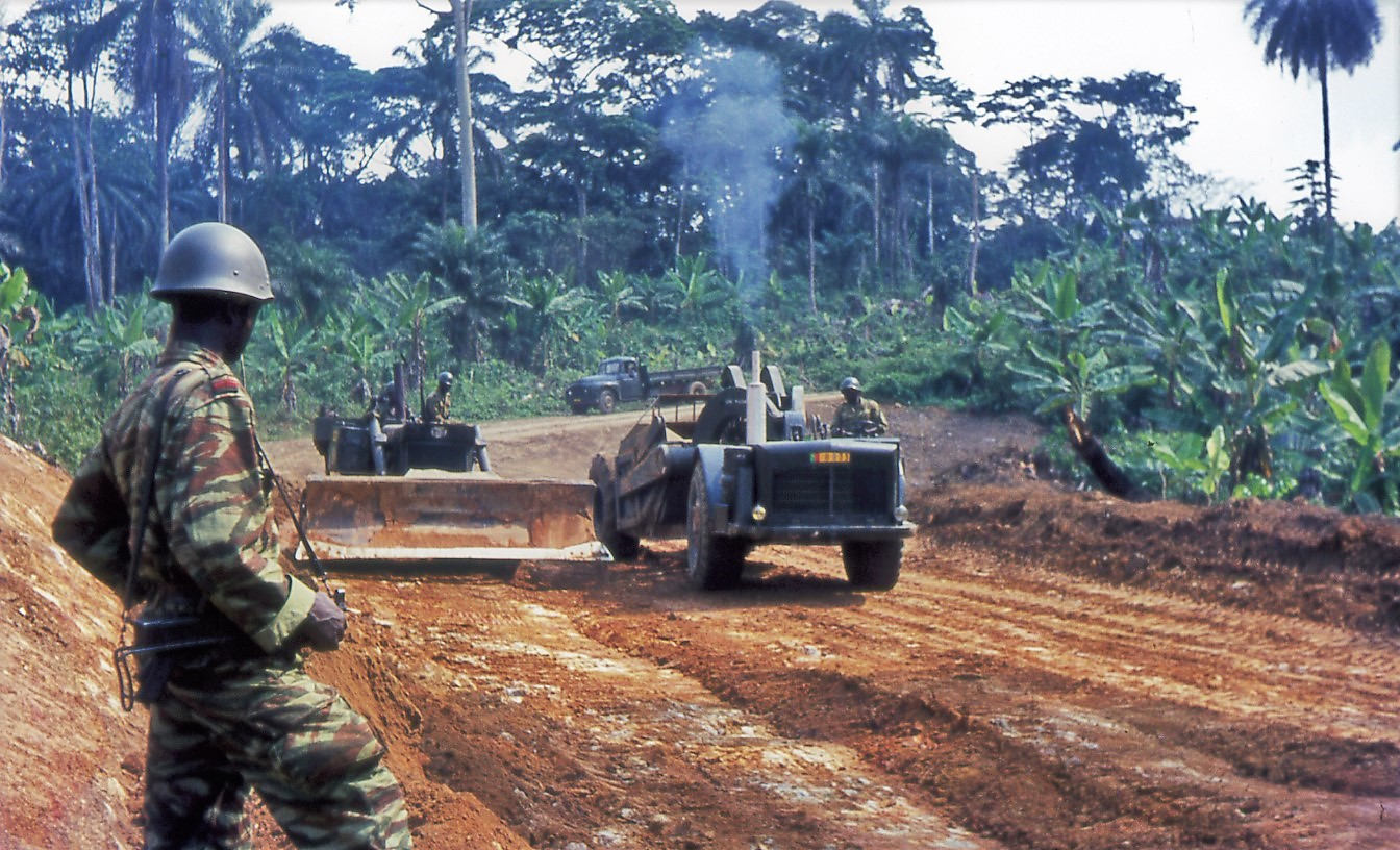 Roadworks on the Bafang-Yabassi track. Cameroon This is an image with the theme "Africa on the Move or Transport" from: Cameroon